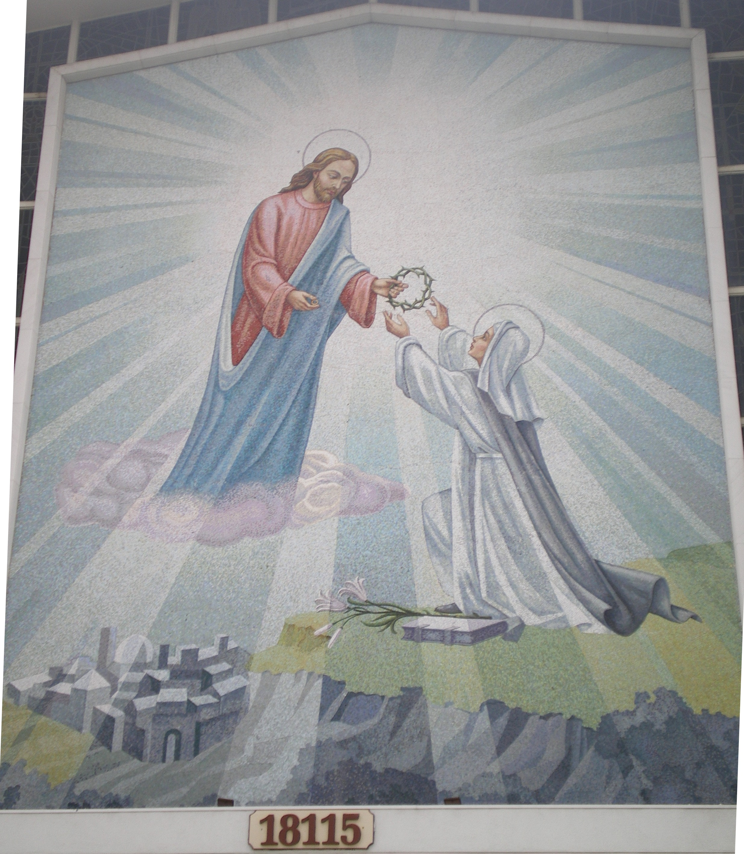 Mosaic of Saint Catherine of Siena in the St. Catherine of Sienna church, on Sherman Way in Reseda, Los Angeles, California.